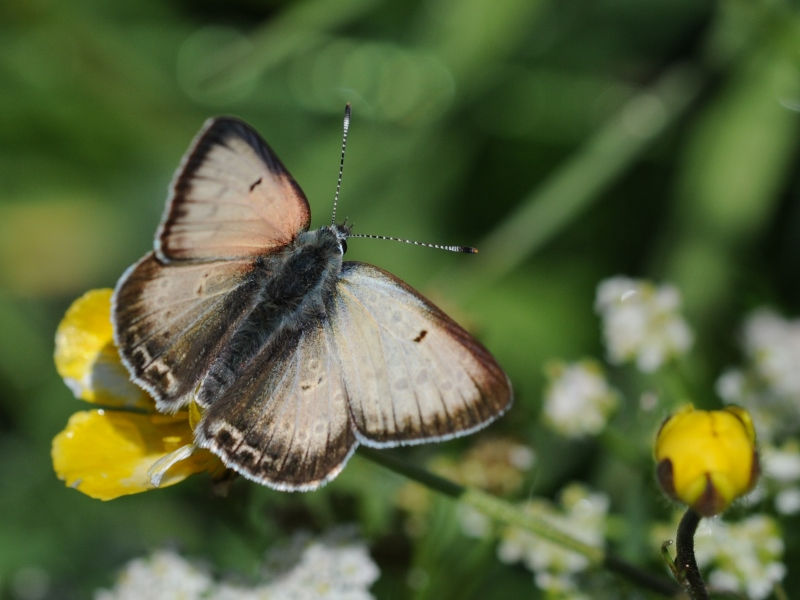 Wing upperside view of an albino variant specimen of Balkan Copper. Ilgar Pass, Ardahan - Turkey. 2500 m.